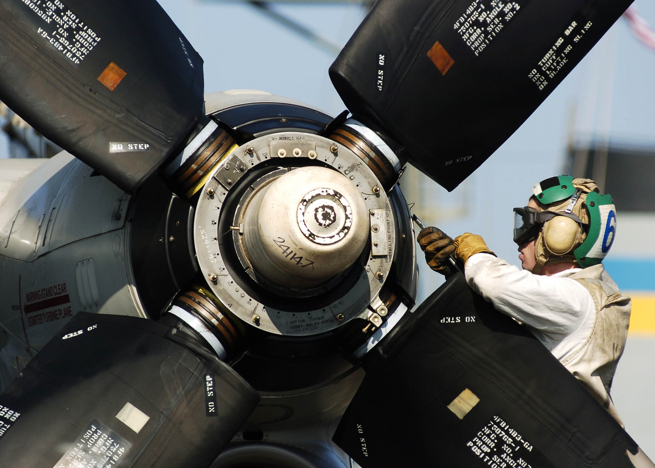 Pacific Ocean (April 3, 2006) - A Sailor performs maintenance to an E-2C Hawkeye assigned the "Sun Kings" of Carrier Airborne Early Warning Squadron One One Six (VAW-116) aboard the Nimitz-class aircraft carrier USS Abraham Lincoln (CVN 72). Lincoln and Carrier Air Wing Two (CVW-2) are currently underway in the Western Pacific area of operations. U.S. Navy photo by Photographer’s Mate 3rd Class James R. McGury (RELEASED)